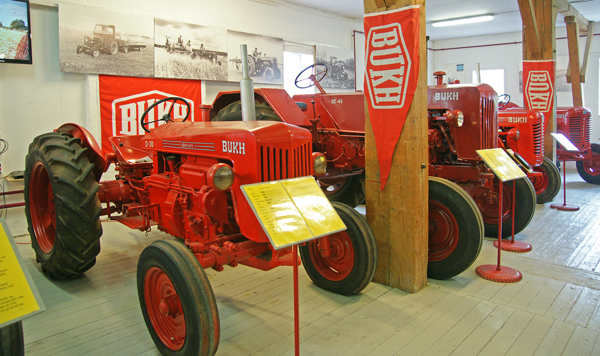 Bukh tractors from Danmarks Traktormuseum in Eskilstrup, Falster, Denmark - from left model D-30 (1959), DZ-45 (1960), 403 (1966) and 452 (1960)